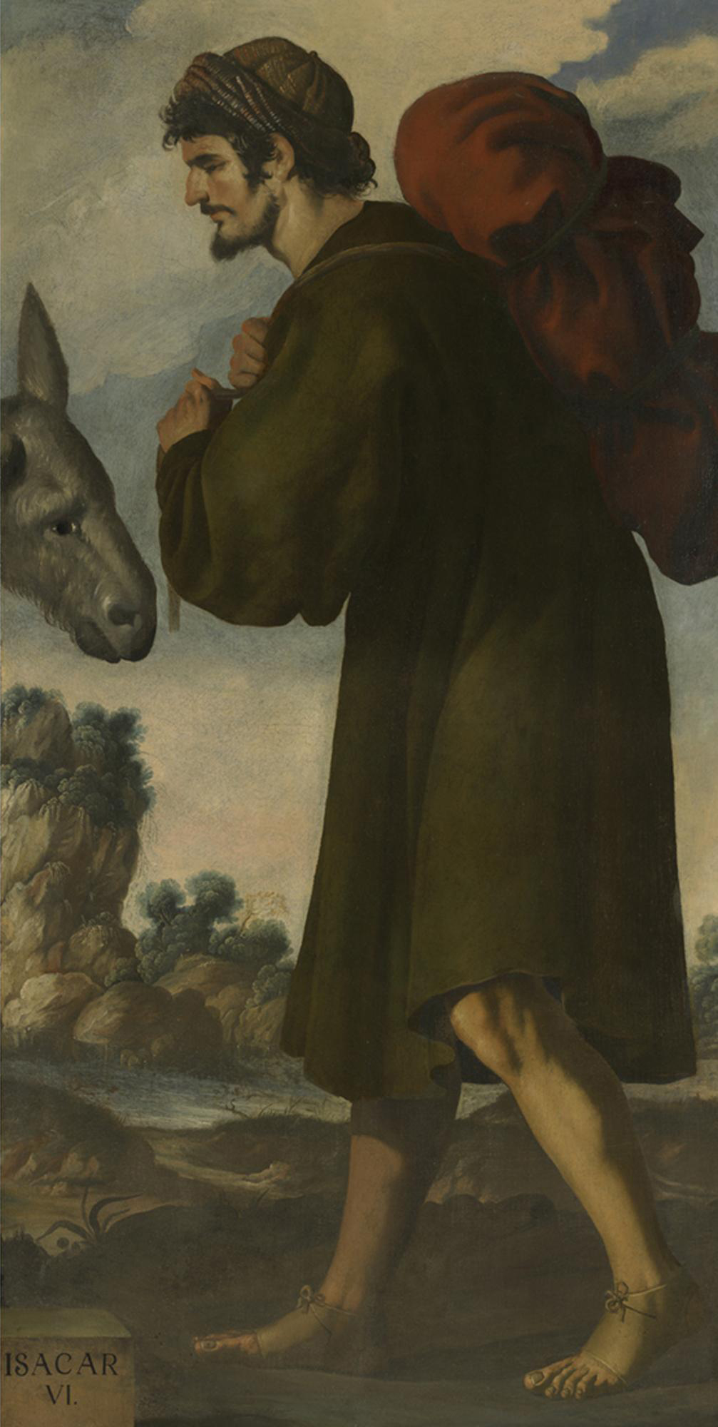 1640-1645 painting of the biblical patriarch by Francisco de Zurbarán